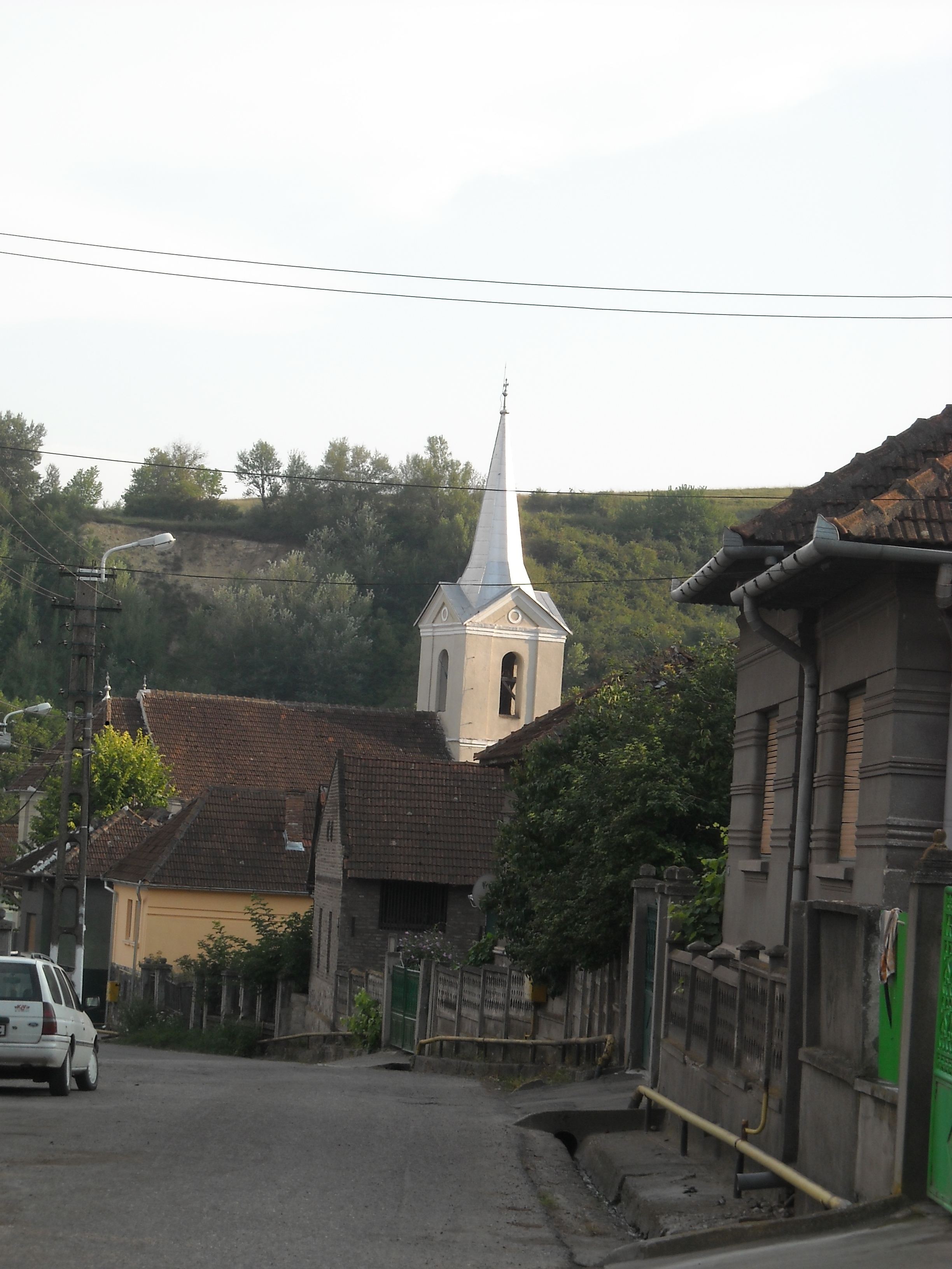 Orthodox church in Răcăștia, Hunedoara